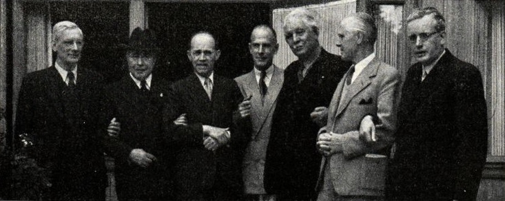 From the international archaeologist and art historian conference in Visby. From left: Professor Sune Lindqvist, Director Ivan Traugott, museum director Frédérie Gysin, Switzerland, Finland's National Antiquarian C. A. Nordman, Professor Axel Romdahl, Professor Andreas Lindblom and superintendent Gösta Berg. The first international scientific post-war congress will open in Visby and will take place until 23 September. Through the participation of the Swedish Institute and the Nordic Association, approximately 170 archaeologists and art historians, as well as students from seven nations gather for deliberations, lectures and study trips with the Middle Ages and especially the medieval stained glass as the main subject. The initiator is Professor Axel Boëthius, who first raised the thought in Svenska Dagbladet, together with Professor Johnny Roosval, who together with Docent Mårten Stenberger formed the organizing committee. The meeting is considered the foundation of a research institute in Visby in conjunction with regularly repeated Nordic university and university excursions in Gotland or elsewhere.